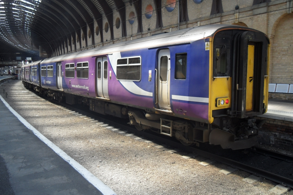 Class 150/2 at York